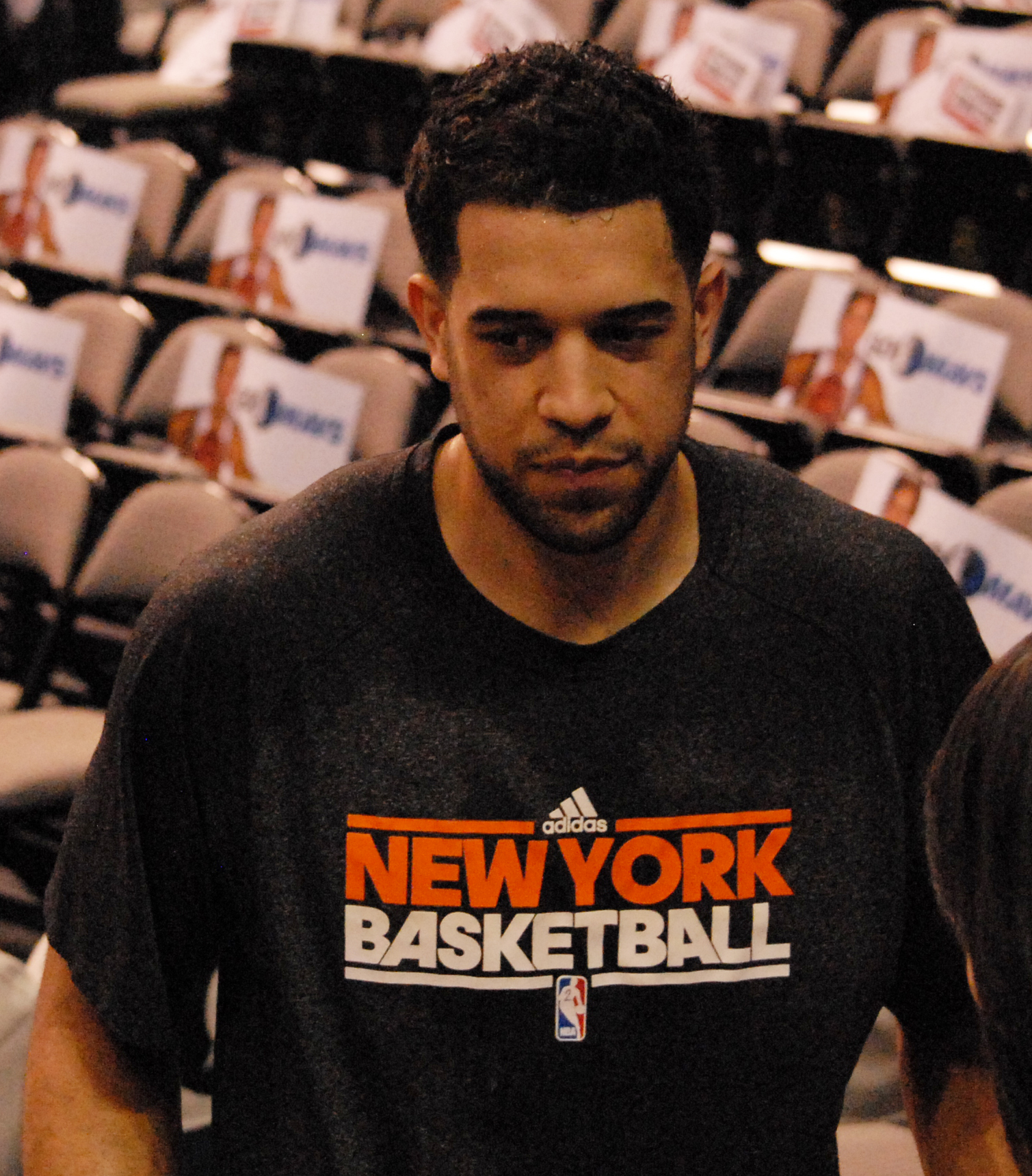 Landry Fields with the New York Knicks